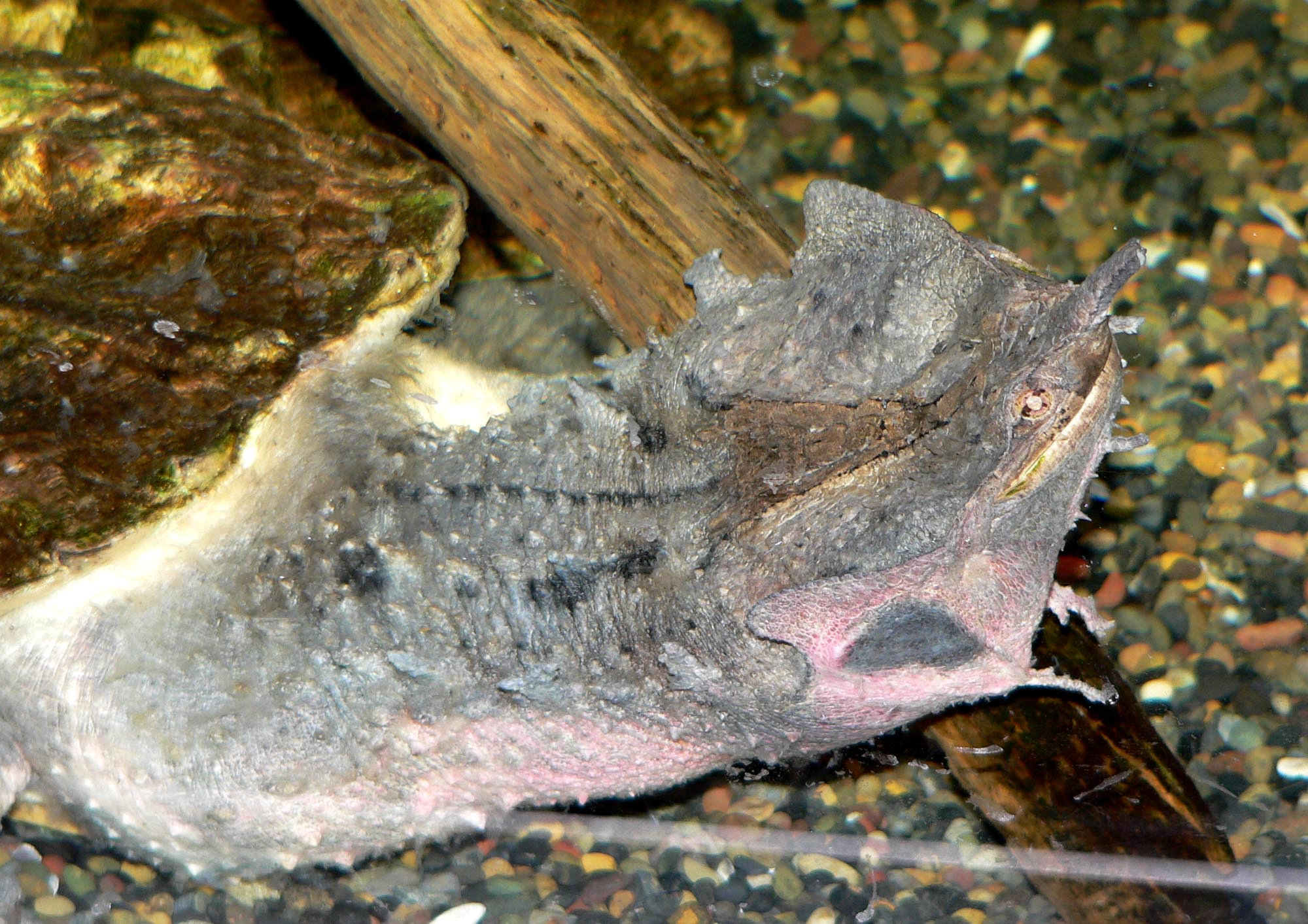 Photo of Chelus fimbriatus (matamata) at the Steinhart Aquarium in San Francisco